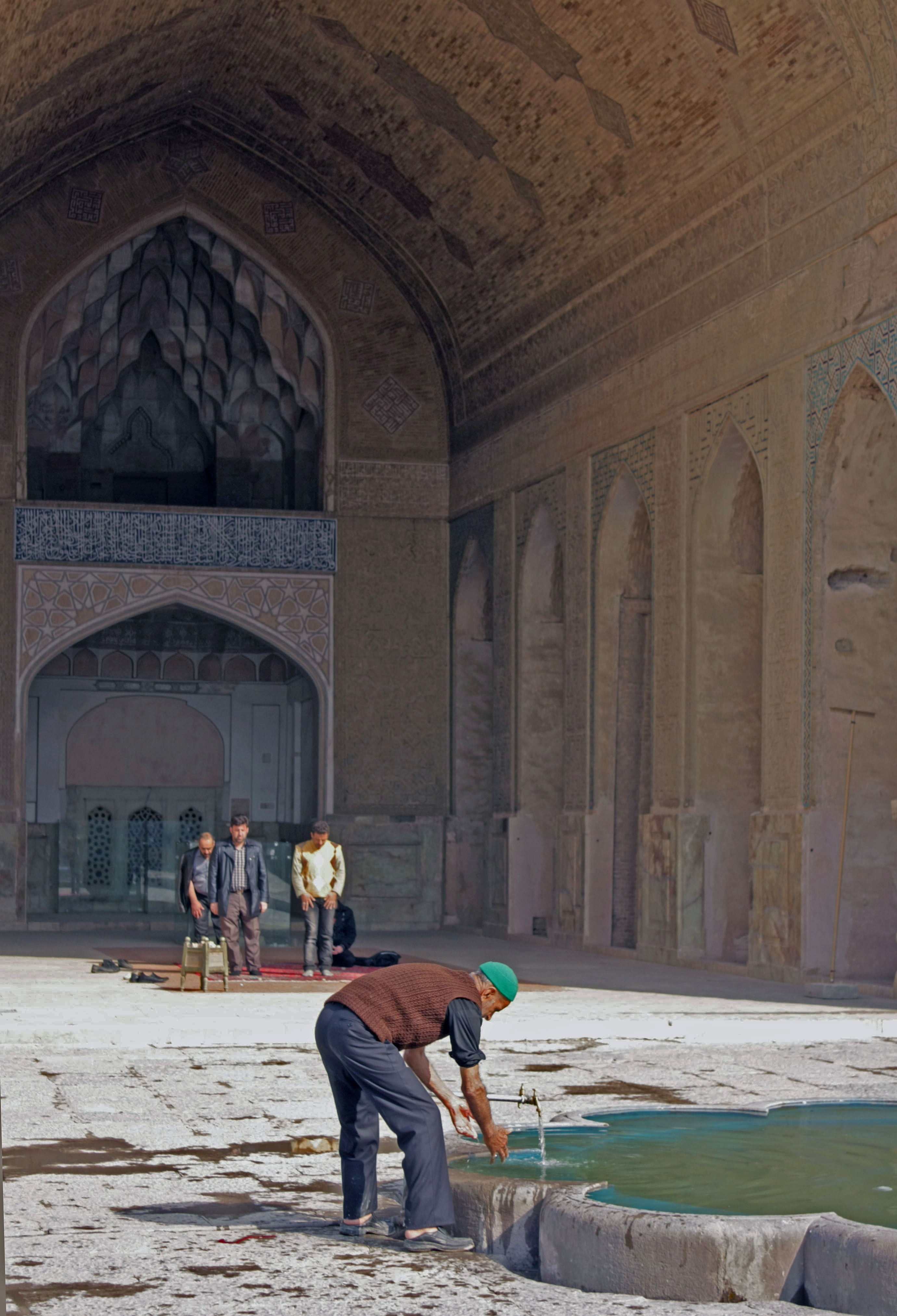 Masjed-e Jomeh, Isfahan